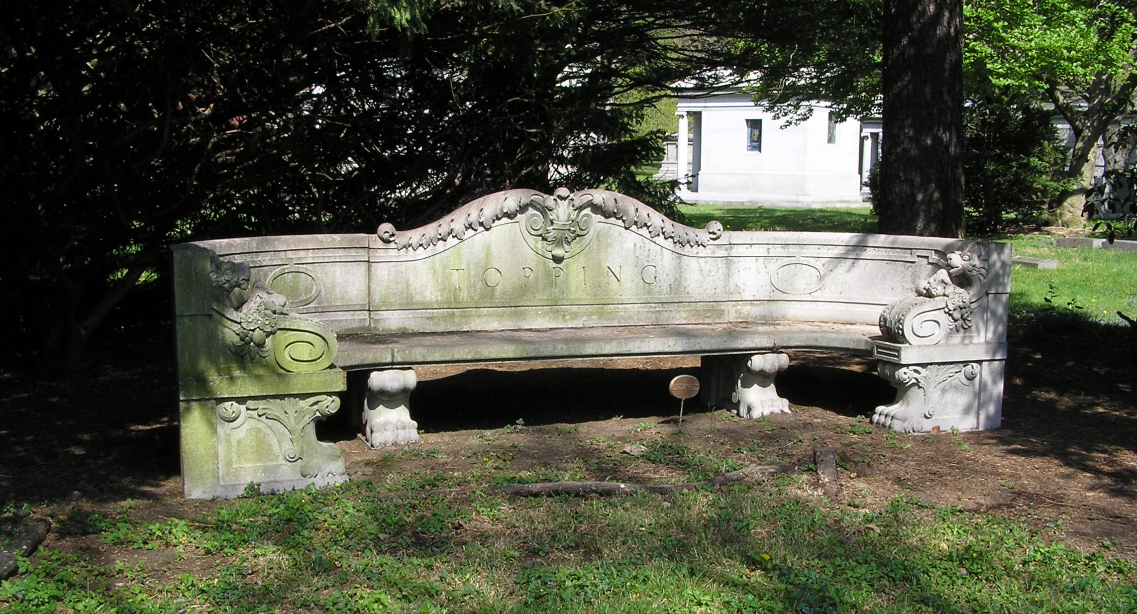 This is photograph of an exedra tombstone in Woodlawn Cemetery, Bronx, NY